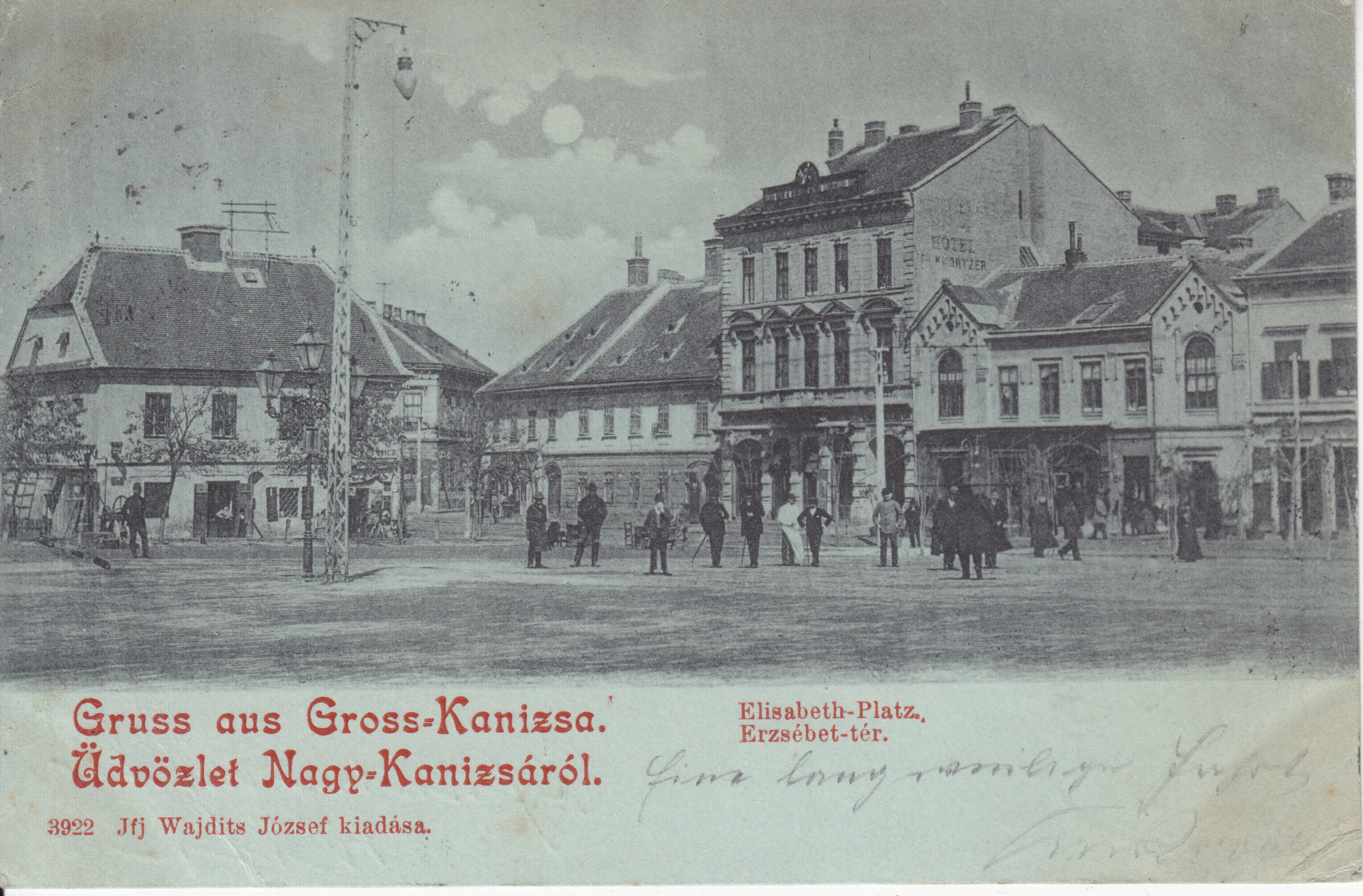 Nagykanizsa at the end of 19th century